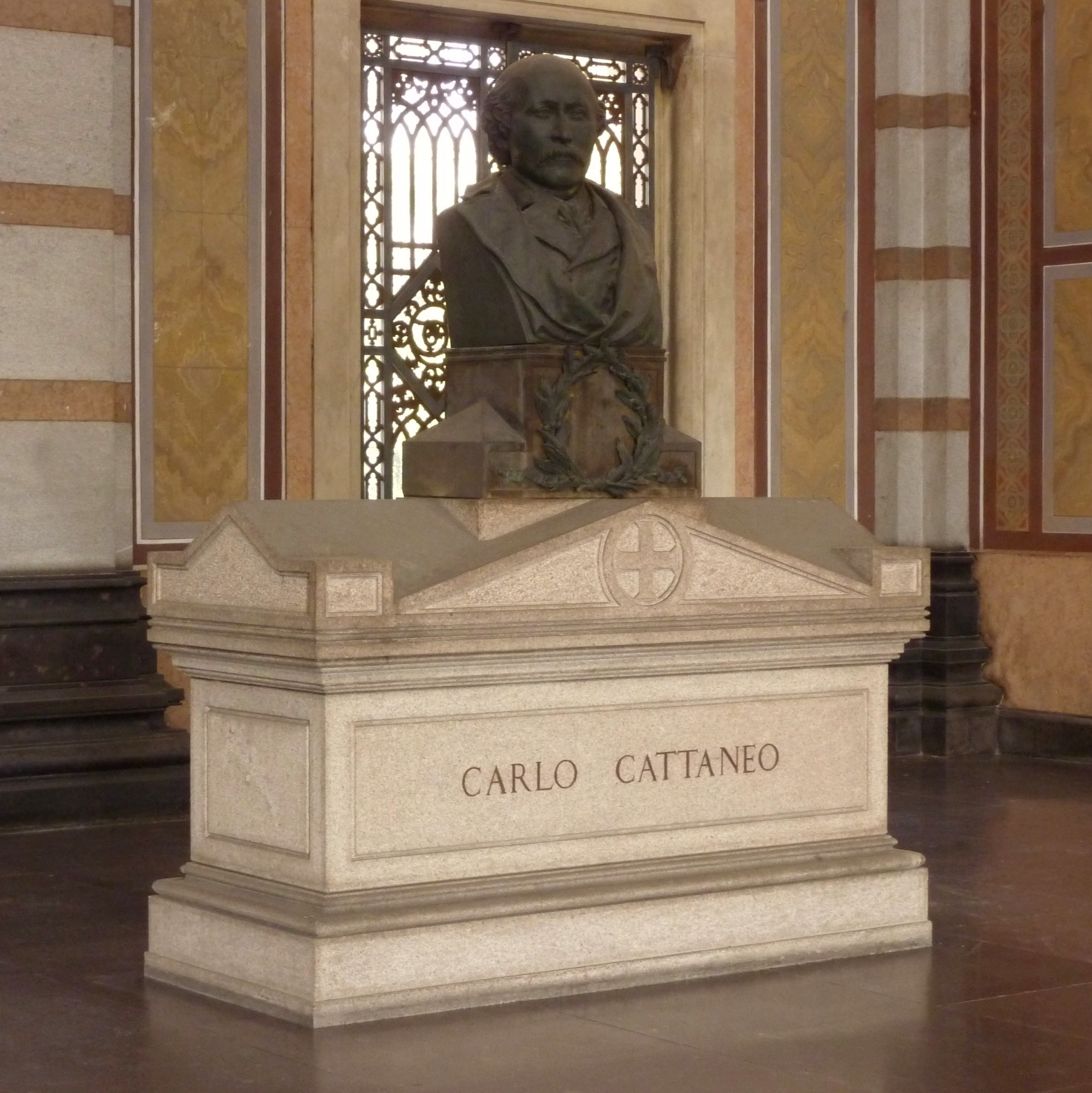 The grave of Italian philosopher Carlo Cattaneo at Cimitero Monumentale in Milan, Italy.